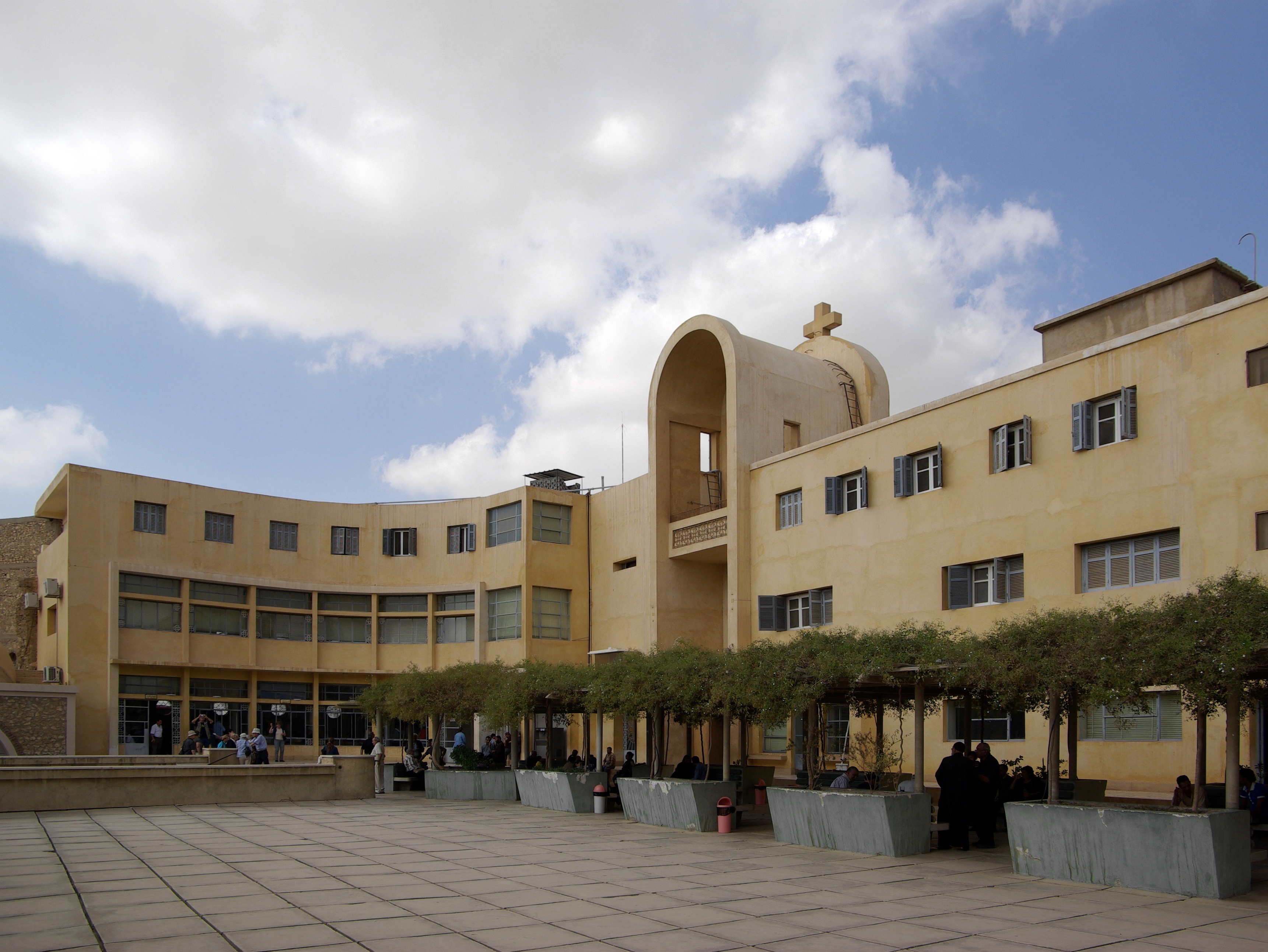 Monastery of Saint Macarius the Great, Wadi Natrun